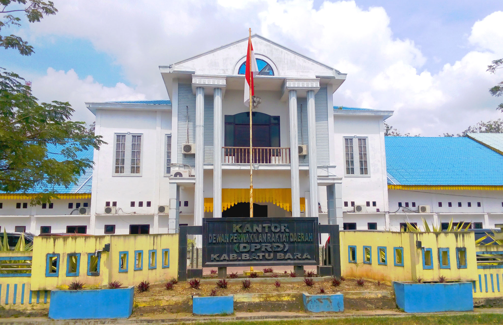 Office of DPRD Kabupaten Batu Bara, Sumatra Utara